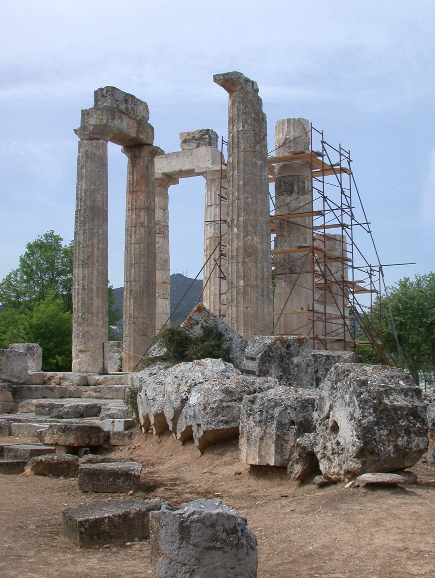 Temple in the ancient city of Nemea.